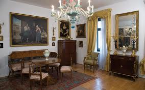 Interior of the Marton Museum in Samobor